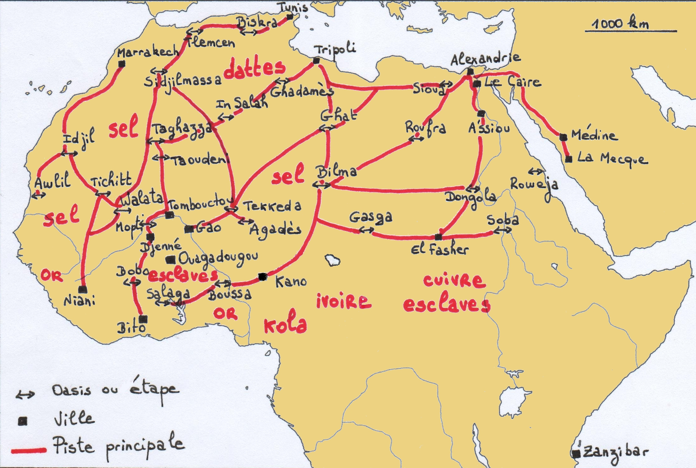 Map of medieval trans-Saharan trade